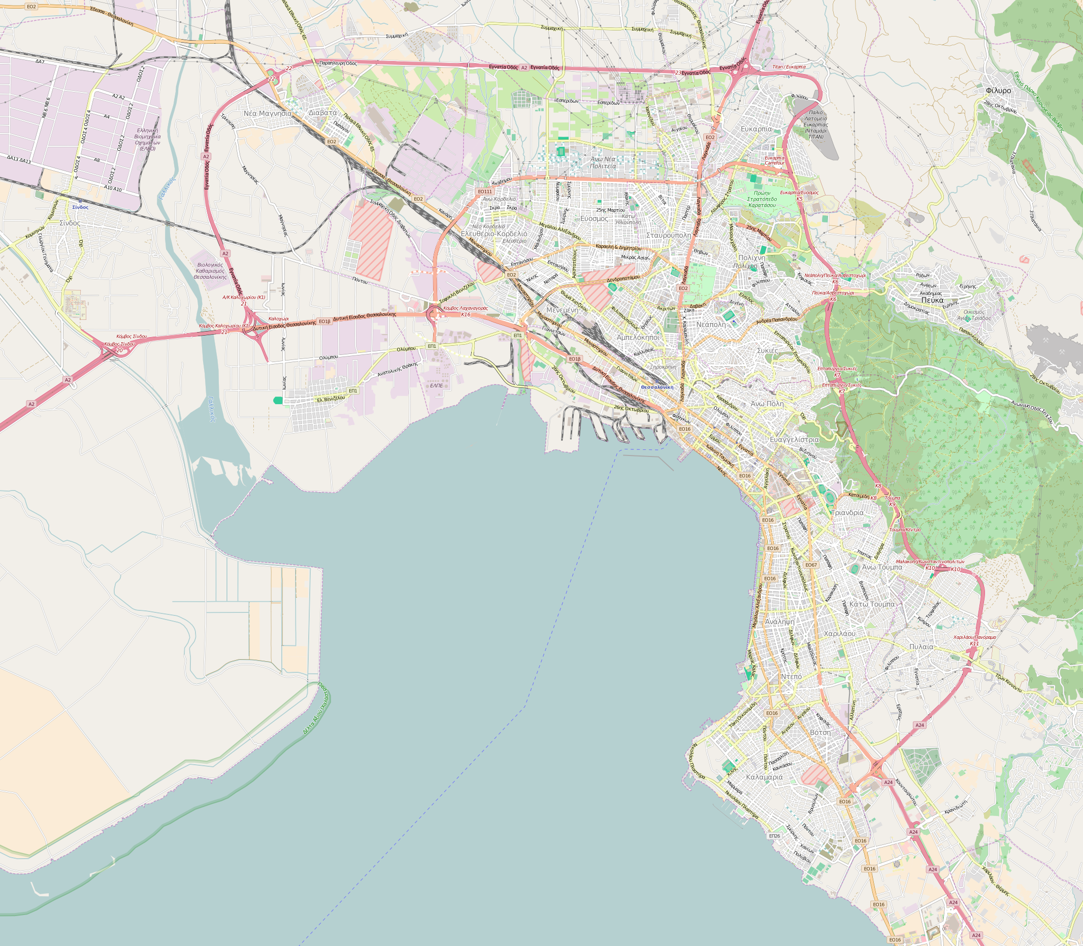 OpenStreetMap - Map of Thessaloniki